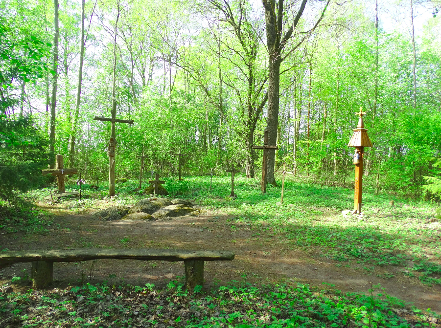 St. Mary's footprint stone in Rozalimas forest, Pakruojis District, Lithuania